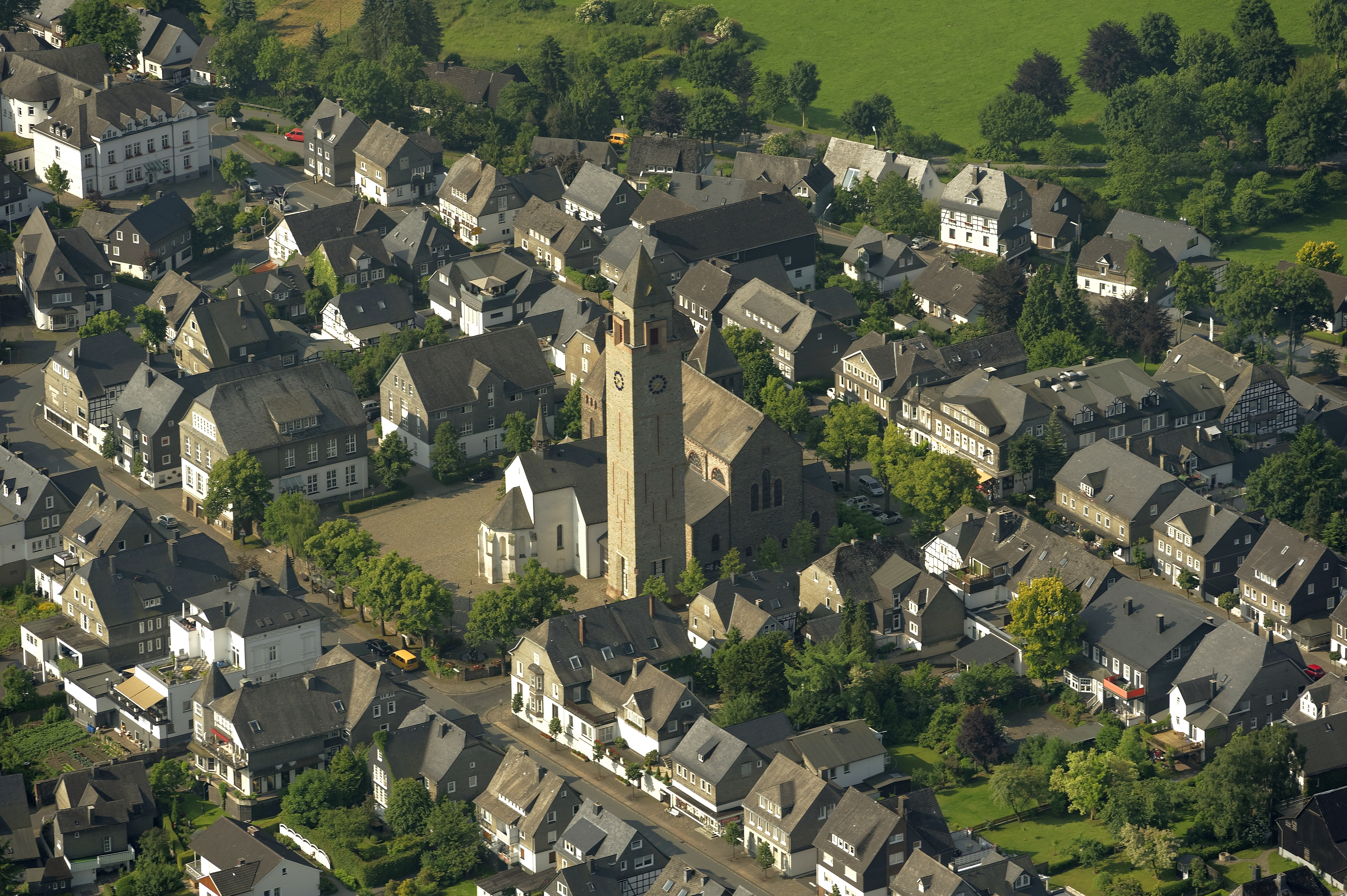 Fotoflug Sauerland-Ost, St.-Alexander-Kirche, Schmallenberg The making of this document was supported by the Community-Budget of Wikimedia Germany.